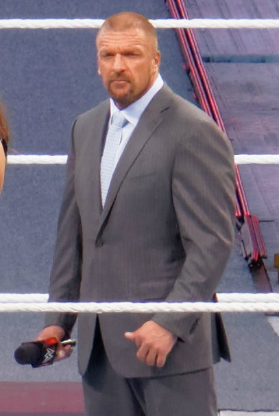 Triple H At WrestleMania 31 in 2015.